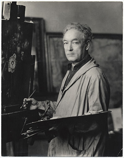 From the:Archives of American Art, Smithsonian Institution (the AAA has a larger version on their website, but it has watermarks all over the image). Description: Identification on verso (typewritten): William J. Glackens (1870-1938). Starting as an illustrator for newspapers and magazines, Glackens found in his immediate world subjects for his painting. As a member of "The Eight", he was much admired by his contemporaries for his powers of observation and his draughtsmanship. Forms part of: 1913 Armory Show, 50th anniversary exhibition records, 1962-1963 Rights Statement: U.S. public domain